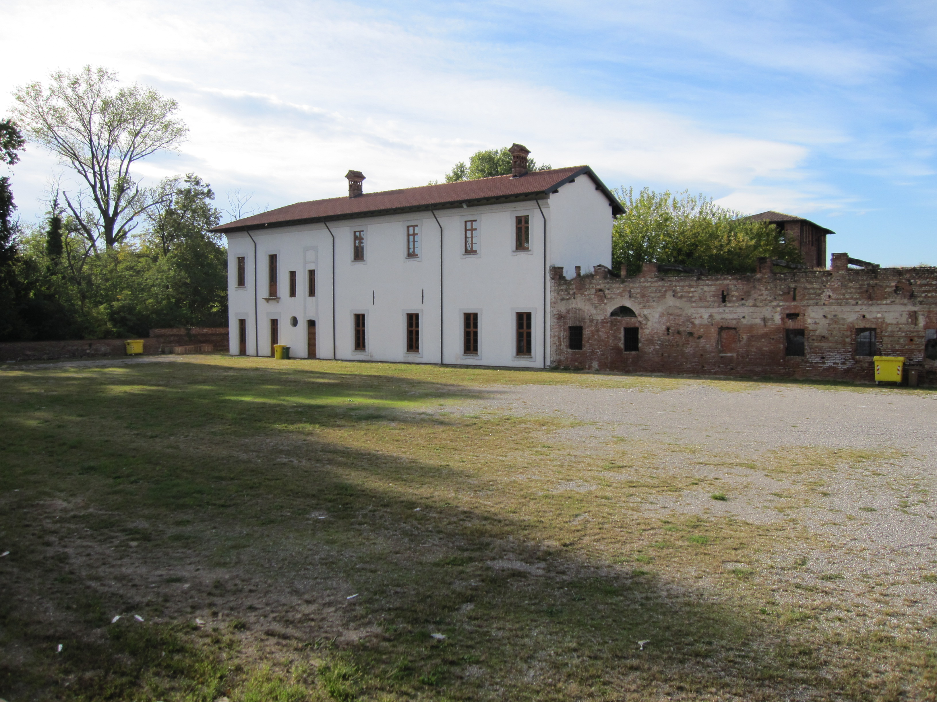 St. George's castle (in Legnano, Italy) - southern building, view from east